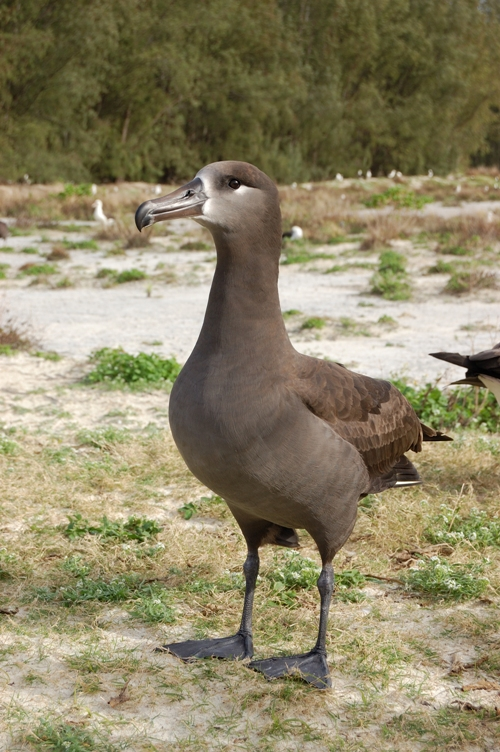 Taken by - James Lloyd Place - Sand Island, Midway Atoll. February 2007 Source